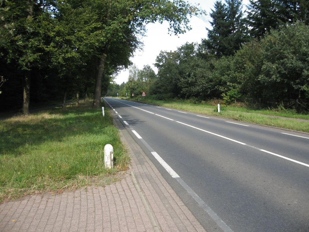 Dutch Provincial road 737 near Enschede.